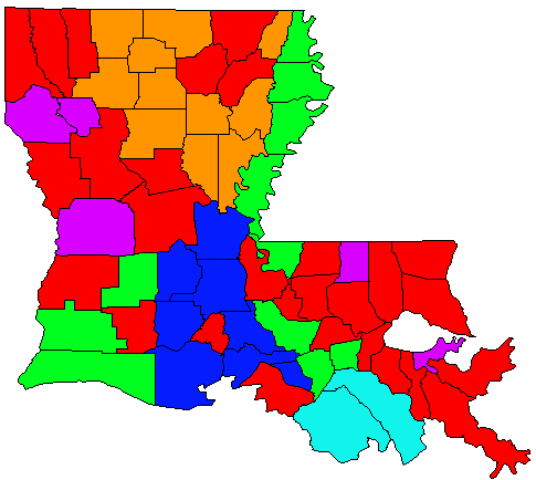 October 4, 2003 Louisiana Gubernatorial Election results by parish. [1] Red – Parishes in which candidate Bobby Jindal obtained a plurality of majority of the votes cast. Blue – Parishes in which candidate Kathleen Blanco obtained a plurality of majority of the votes cast. Light Green – Parishes in which candidate Richard leyoub obtained a plurality of majority of the votes cast. Light Purple – Parishes in which candidate Buddy Leach obtained a plurality of majority of the votes cast. Orange – Parishes in which candidate Randy Ewing obtained a plurality of majority of the votes cast. Light Blue – Parishes in which candidate Hunt Downer obtained a plurality of majority of the votes cast.